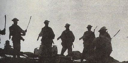 Silhouettes showing underequipped Chinese soldiers armed with traditional swords, in the Defense of the Great Wall